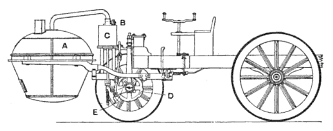 Drawing of the Cugnot Steam Trolly, designed in 1769.